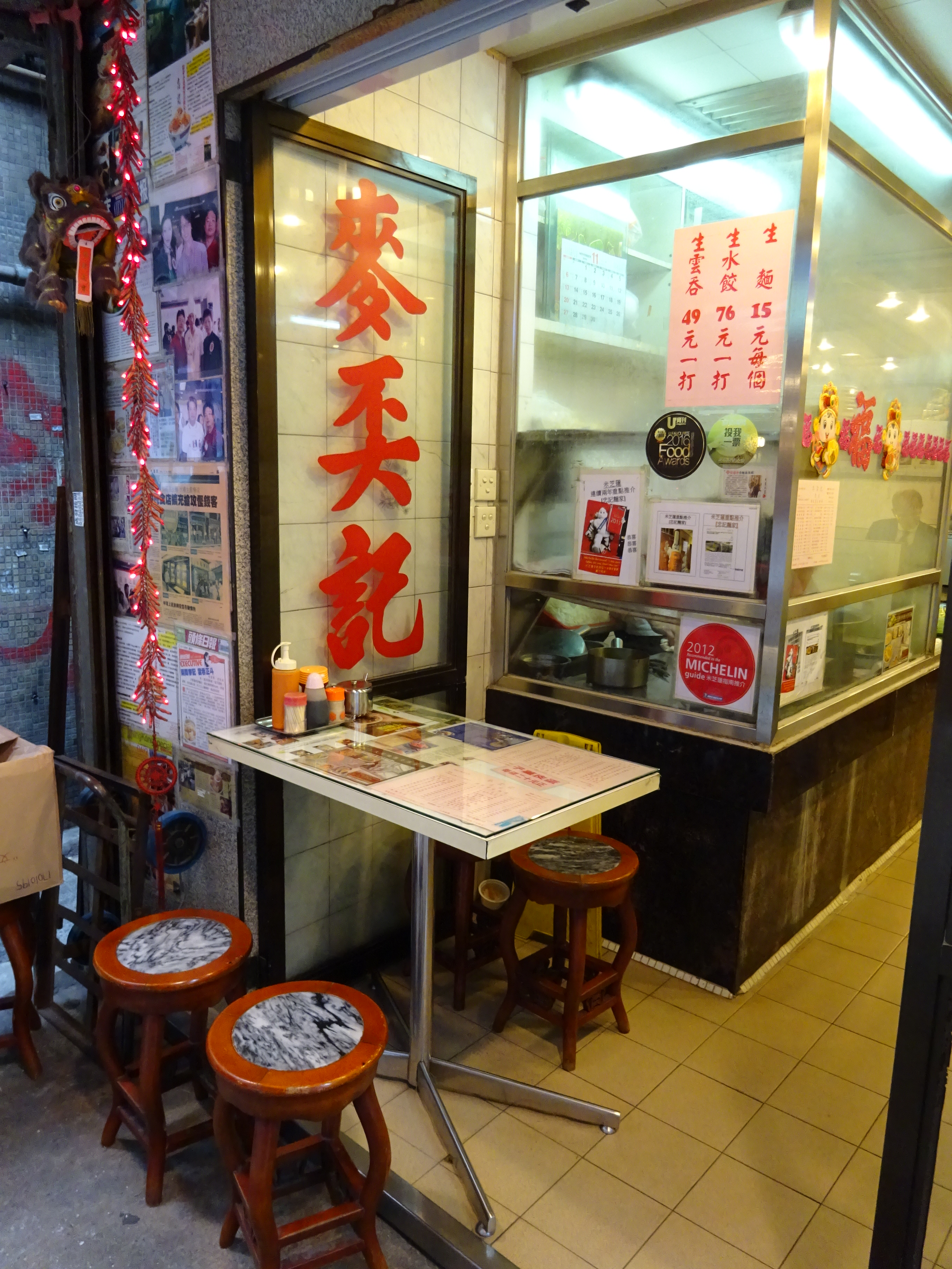 HK Sheung Wan 永吉街 Wing Kut Street in Nov 2016